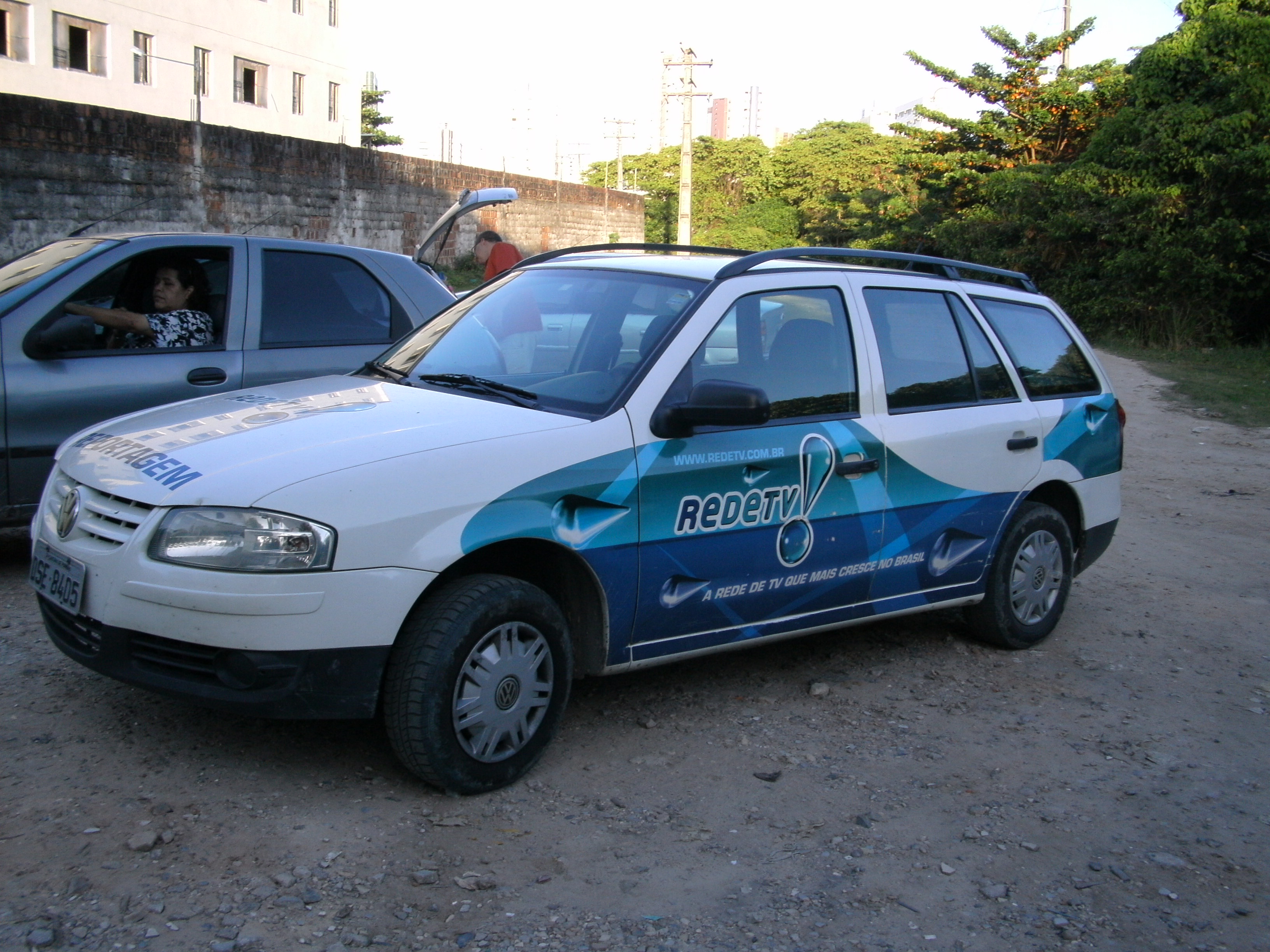 Volkswagen Parati (Mark 4) belonging to RedeTV! in Brazil.